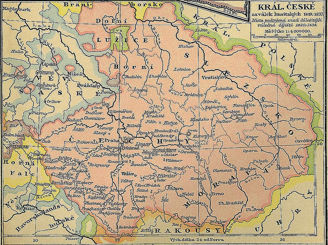 Map of the Kingdom of Bohemia (the area in pink) at the time of the Hussite Wars. The descriptions are in Czech.